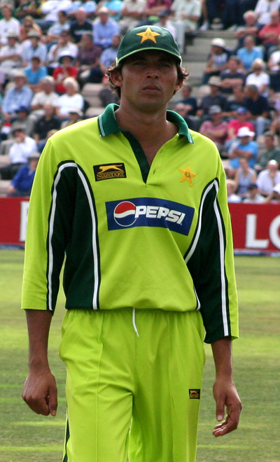 Mohammad Asif in the 3rd ODI at the Rose Bowl, 5th September 2006